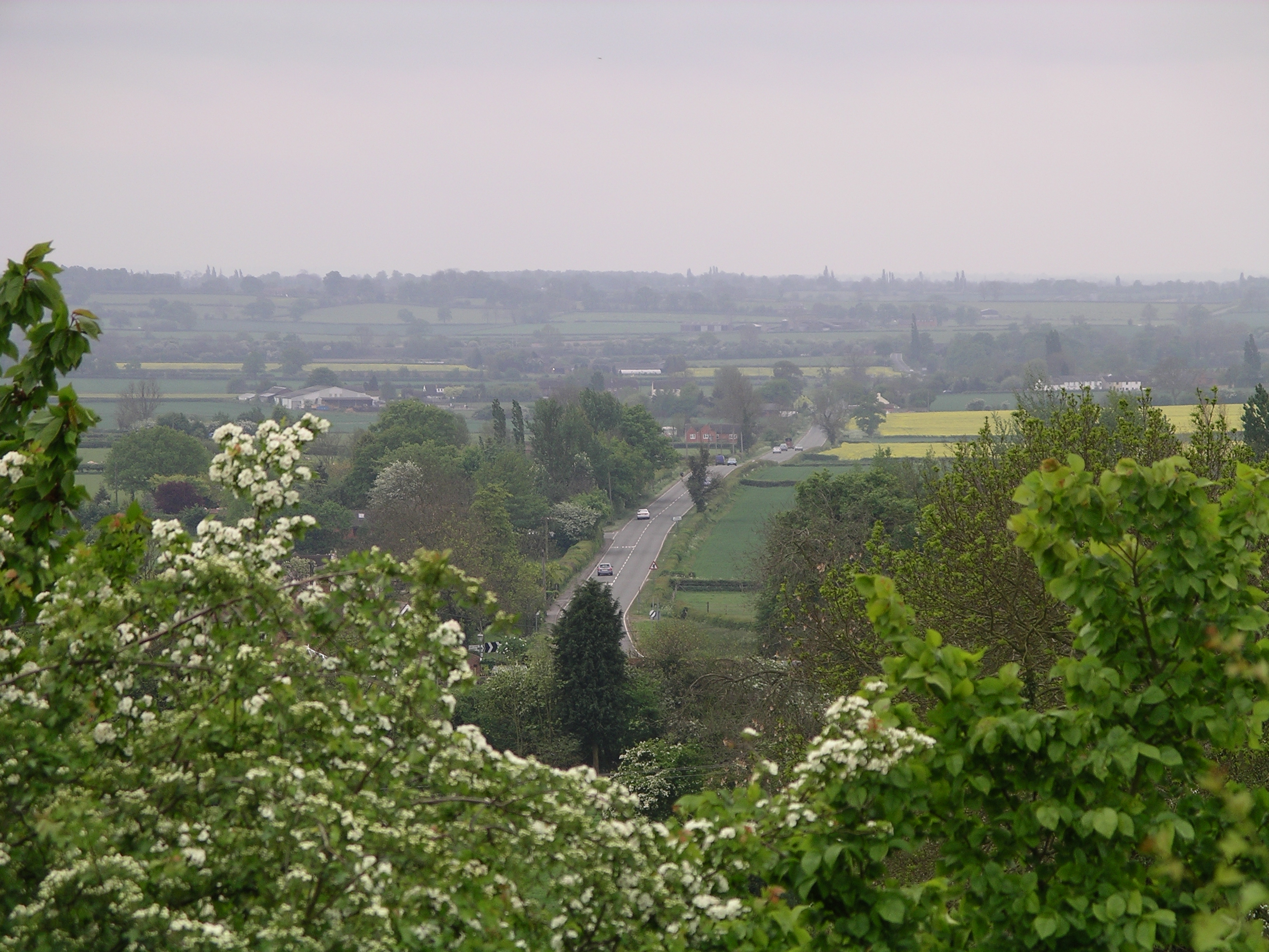 photo of Fosse Way from the top of Bricklow Castle, Brinklow, Warwickshire, England